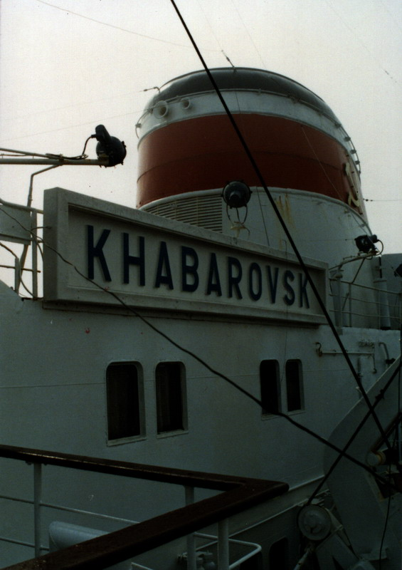 FESCO Khabarovsk Ship